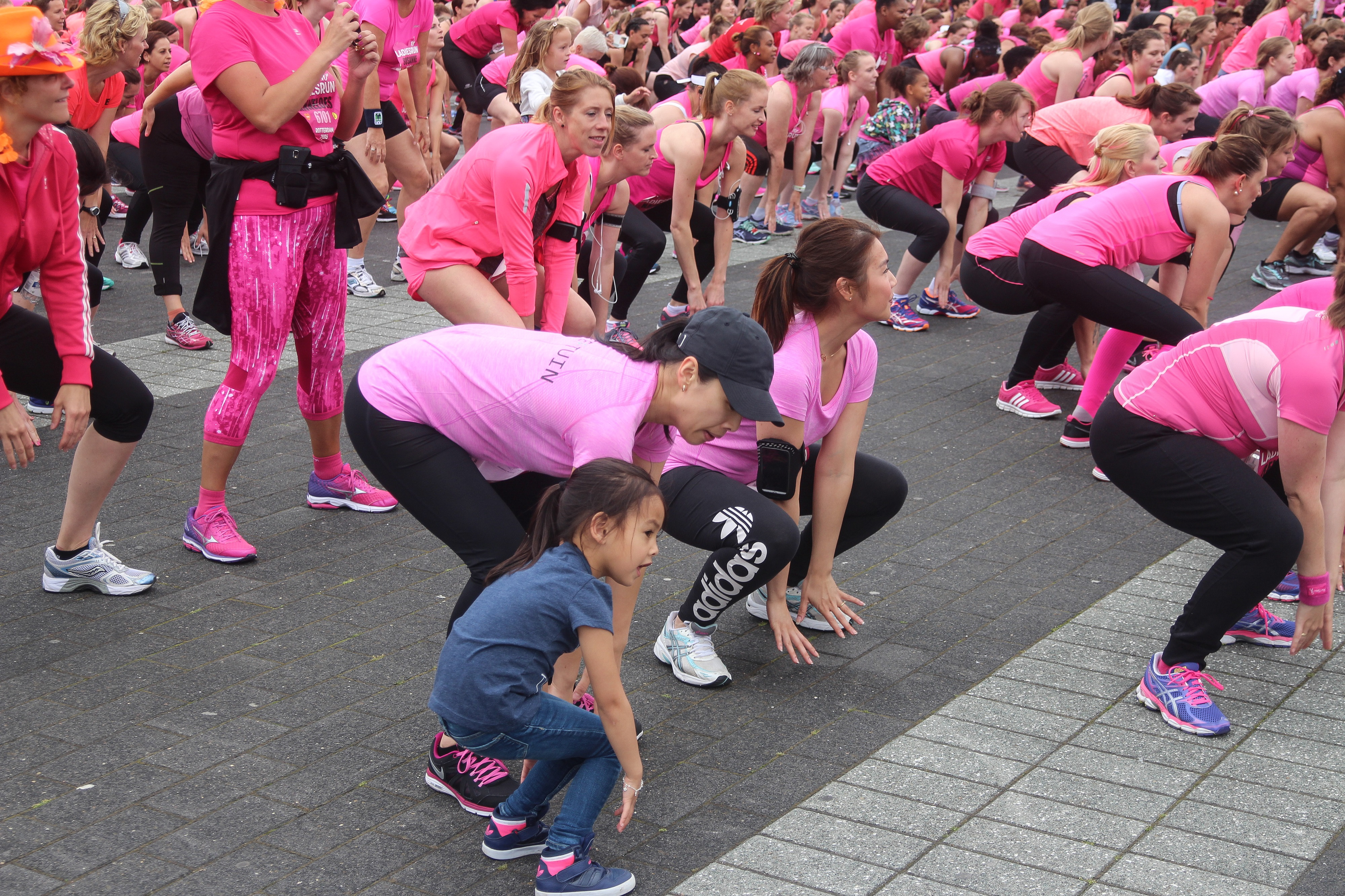 Like mother like daughter ladiesrun Rotterdam